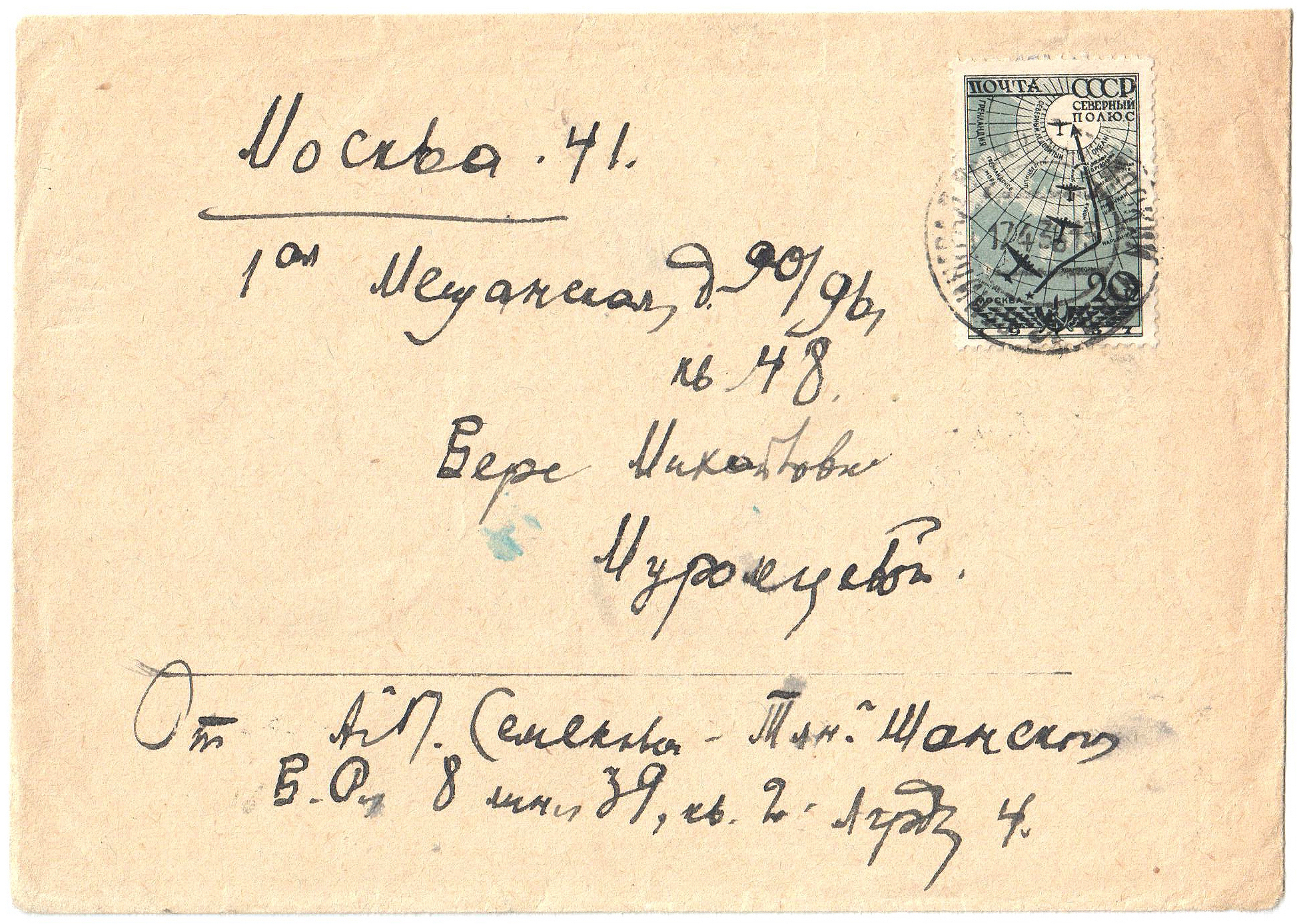 USSR 17-04-1938 cover. Sent from Leningrad to Moscow by a Russian entomologist Andrey Semyonov-Tyan-Shansky. The letter's addressee name is Vera Mikhaylovna Muromtseva. Catalogue: CPA 584